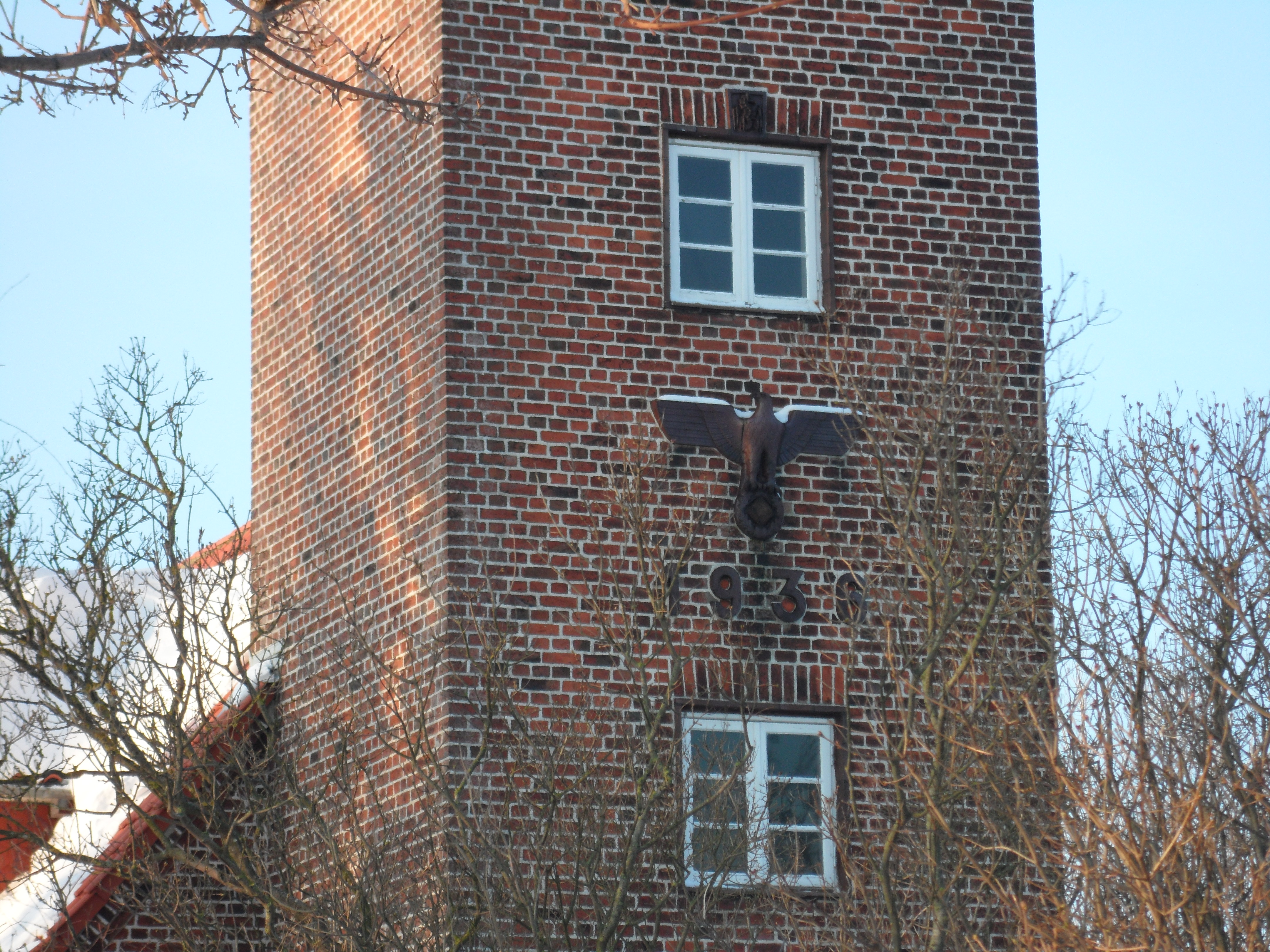 Lighthouse Pelzerhaken at the Neustädter Bucht, Schleswig-Holstein, Baltic Sea, Germany, rebuild 1936